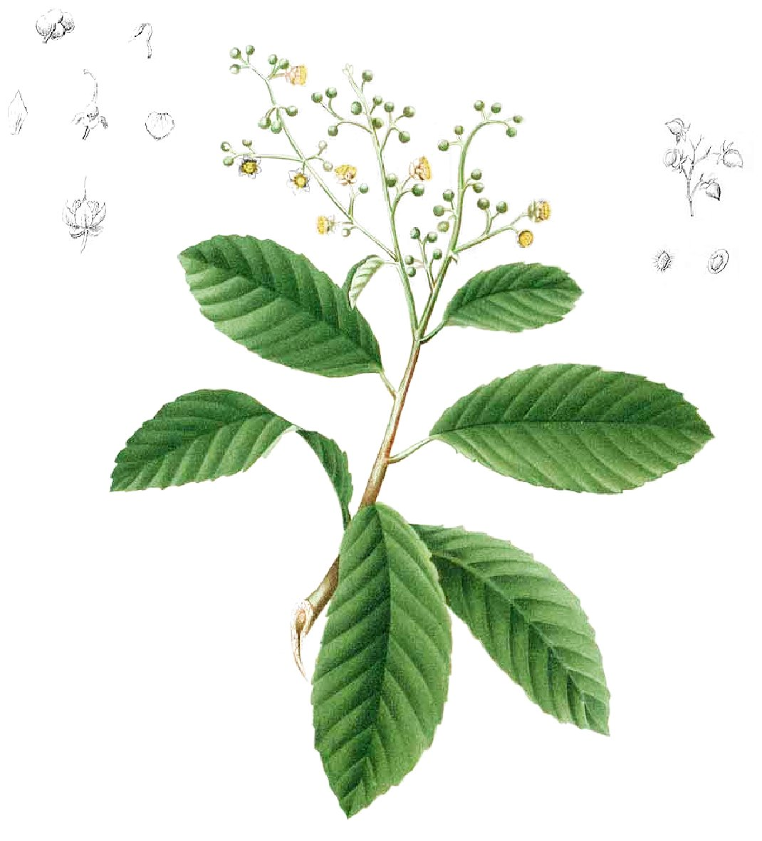 Tetracera scandens (Syn. Delima sarmentosa) Plate from book